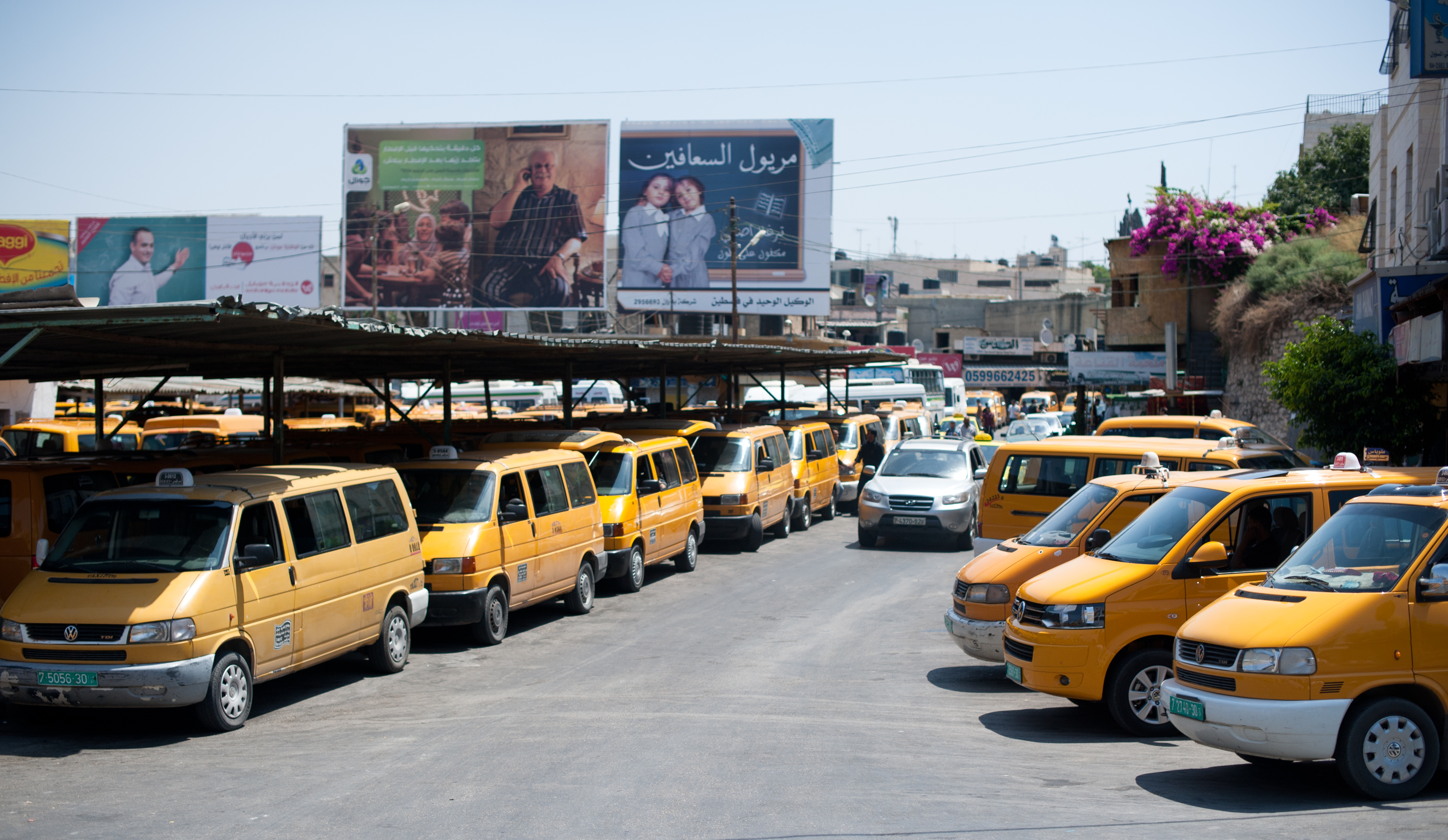 Leaving Jenin, West Bank, Palestine